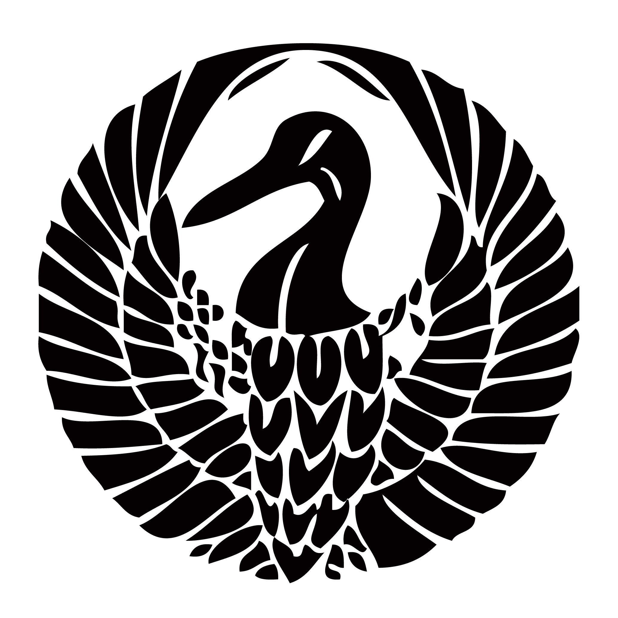 This is Nichiren Shoshu's logo. I converted to vector image, increased the size, and converted to jpeg.